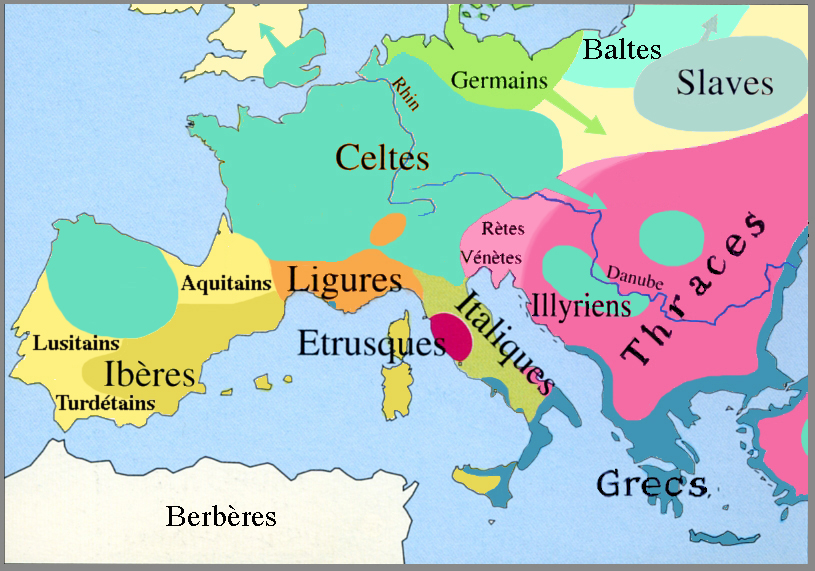 Languages in Europe (IV-th century B.C.)